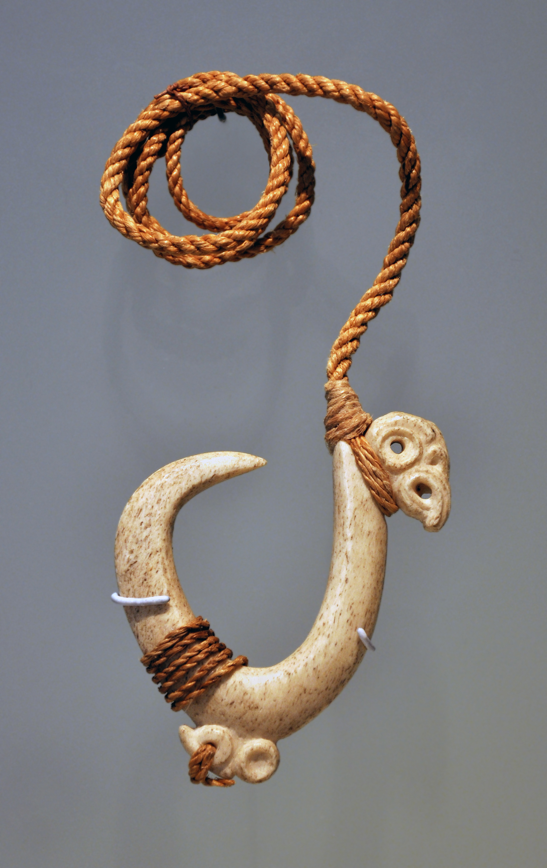 Fishing hook, bone, Maori culture, 1800-1900. In the exhibition "Maori, their treasures have got a soul", in the Musée des Arts Premiers in Paris, from the end of 2011 to the begining of 2012.